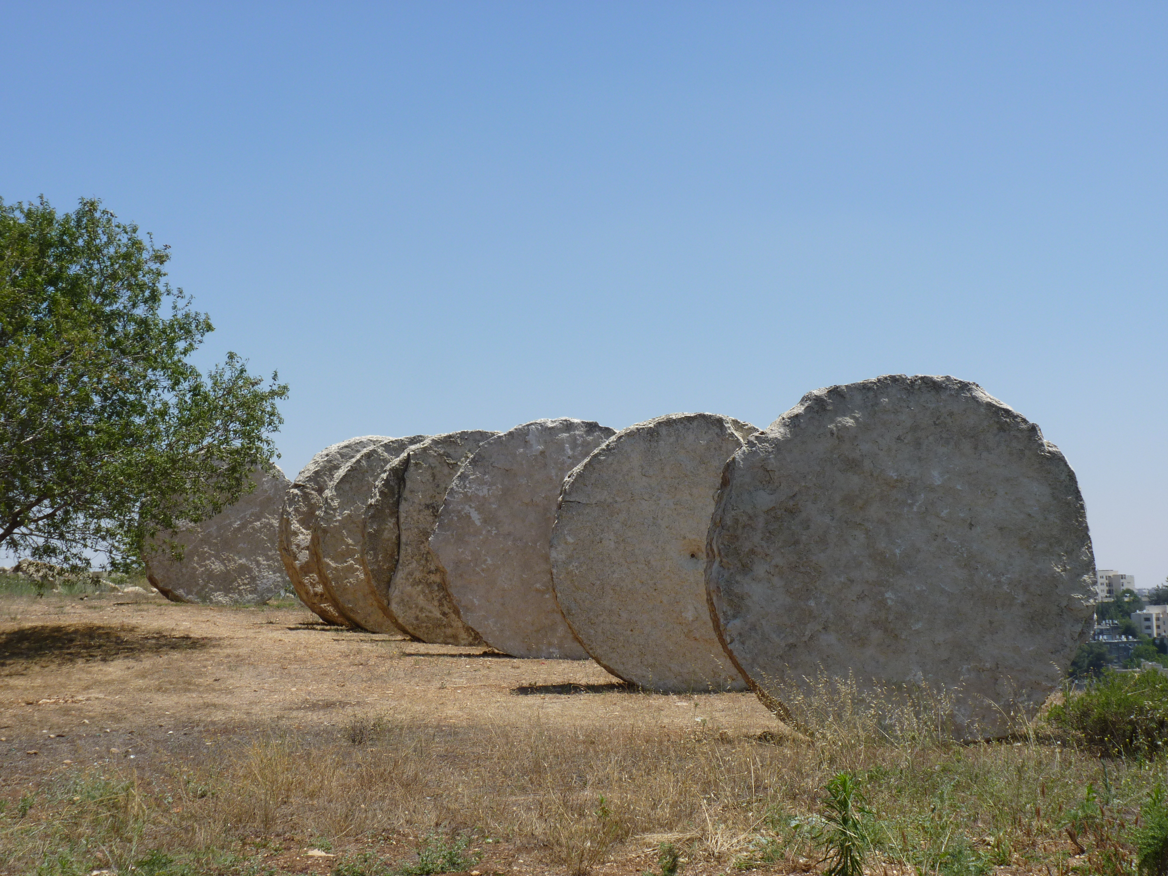 Jerusalem Israel Museum Magdalena Abakanowicz Negev 1987. Israel Museum, Jerusalem